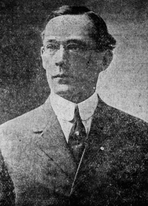 Frank D. Thompson (Vermont Supreme Court Justice)